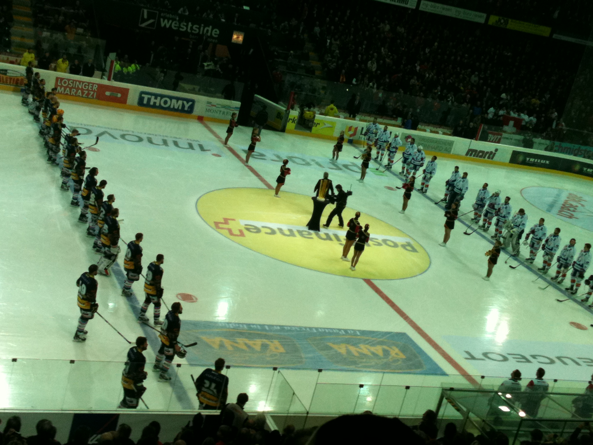 Before the game SC Bern vs. ZSC Lions, April 17, 2012